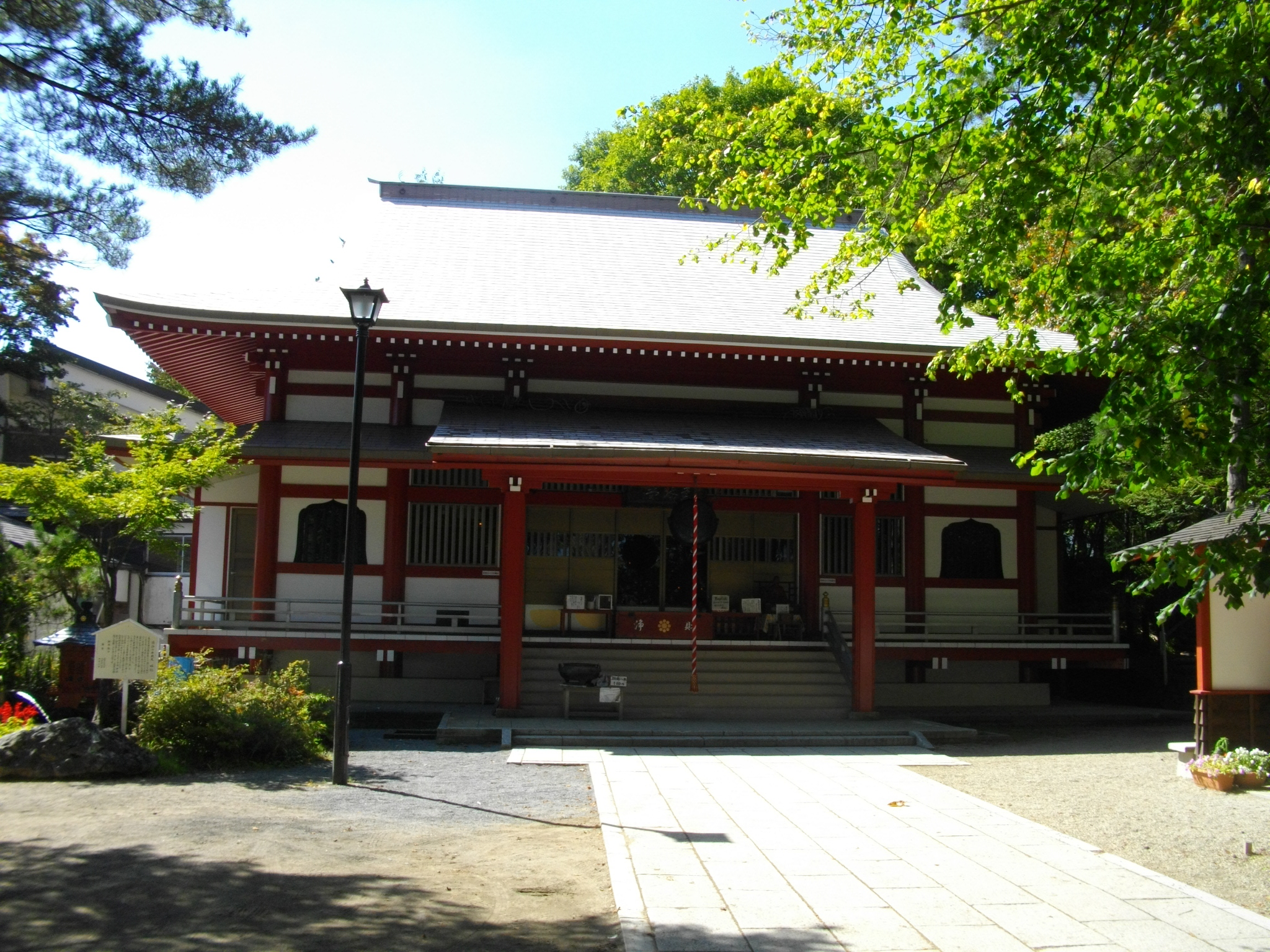 Kosen-ji (Kusatsu) Main Hall